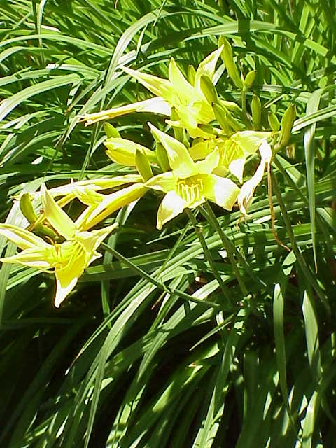 Hemerocallis thunbergii Family:Liliaceae Image no. 2